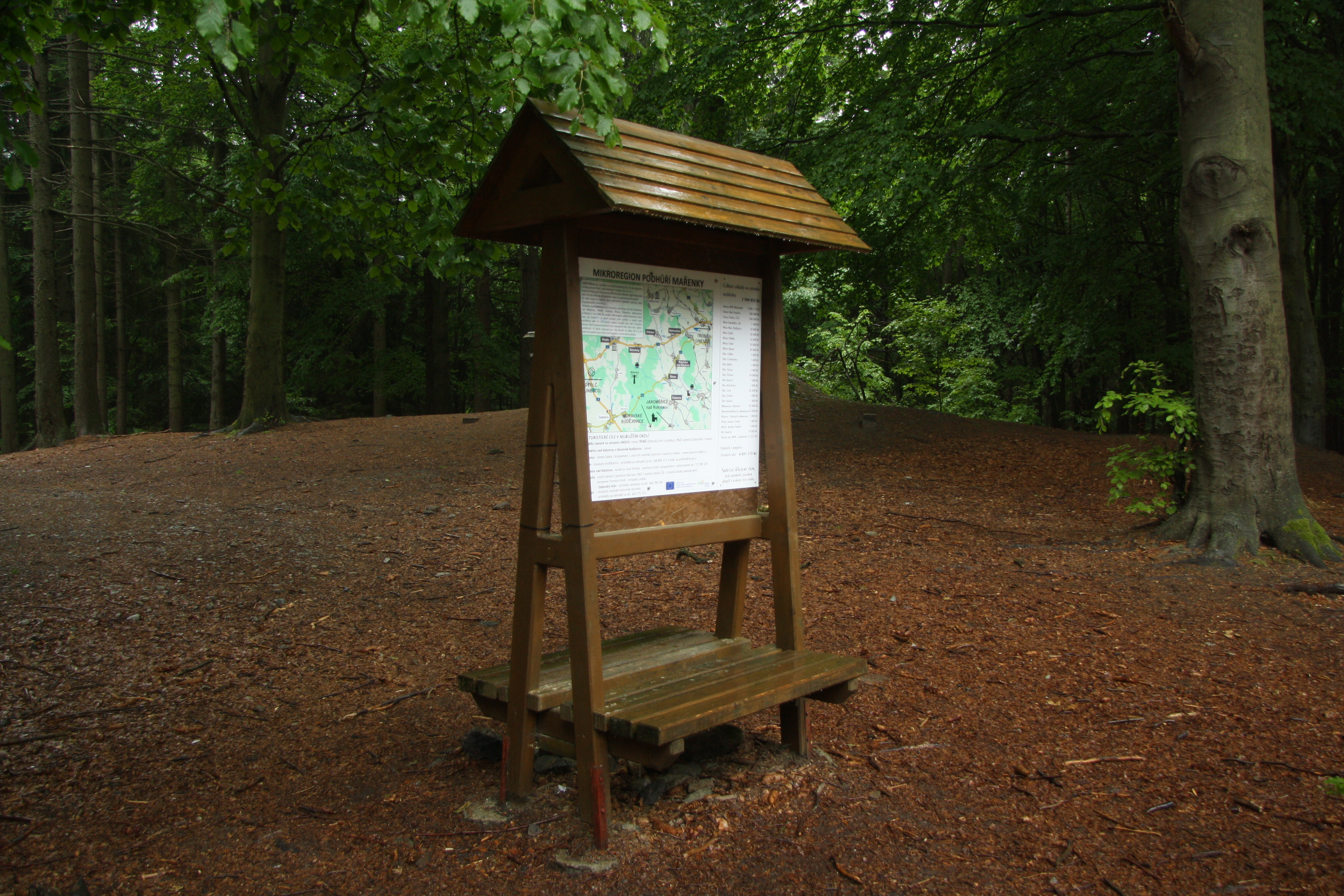 Sign of Microregion Podhůří Mařenky at top of Mařenka hill, Třebíč District.